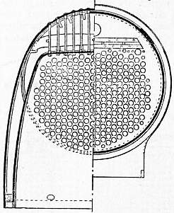 Boiler - Britannica - Fig. 10 This image comes from the 12th edition of the Encyclopædia Britannica or earlier. The copyrights for that book have expired in the United States because the book was first published in the US with the publication occurring before January 1, 1923. As such, this image is in the public domain in the United States. This image comes from the Project Gutenberg archives. This is an image that has come from a book or document for which the American copyright has expired and this image is in the public domain in the United States and possibly other countries. Note: Not all works on Project Gutenberg are in the public domain. Some public domain works may have trademark restrictions where all references to the Project Gutenberg must be removed unless the following text is prominently displayed according to The Full Project Gutenberg License in Legalese (normative): This eBook is for the use of anyone anywhere at no cost and with almost no restrictions whatsoever. You may copy it, give it away or re-use it under the terms of the Project Gutenberg License included with this eBook or online at